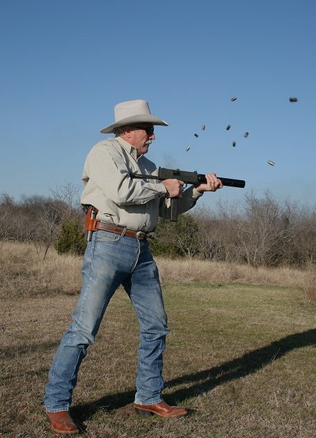 US Marshal firing the suppressed Ingram MAC 10